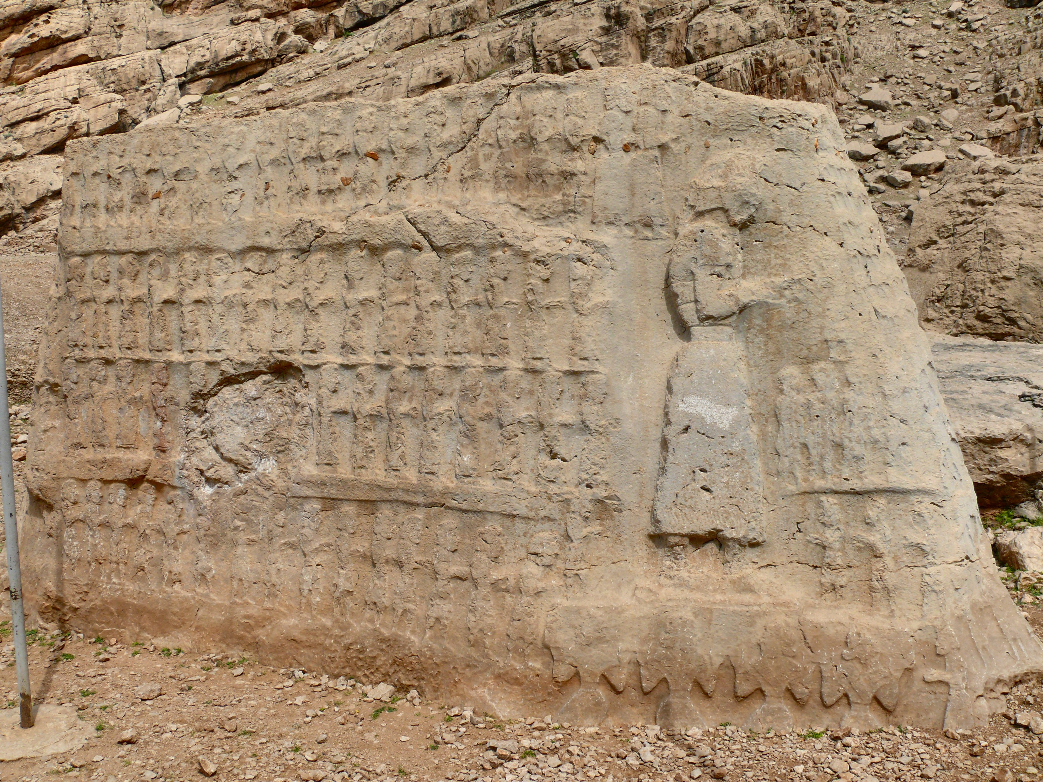 The elamite rock relief said Kul-e Farah III is carved on an isolated rock at the South East of Izeh, ancient elamite city of Ayapir. It was discovered in the 19th century by the british orientalist traveller and archaeologist Austen Henry Layard, as many others at Izeh. The relief is the IIIrd of a serial of 6 carved in a little gorge, covering either isolated rocks and cliffs. This one dates of the 7-8th centuries BCE, as the others of this site. All 4 sides of this cubic rock are carved on the whole surface. The south side scene shows either a high priest or a king in praying attitude, ordering a sacrificial religious office, with behind and in front of him, ranks on uncountable praying and dancing devots. Although the posture of the characters is stereotyped in a humble attitude, one of the rank is particular, showing a rare dynamic scene of dance or rejoicing characters. Religious theme is a classic in Elamite rock reliefs, often showing ranges of outnumbering devotes praying or dancing, covering all the surface of the rock. No perspective yet existed at this time into the fashion of representative art. The tall of the main character is major compared to the others, sign of a big social rank, if not a royal rank. City of Izeh, Khuzestan province, Iran, April 2008